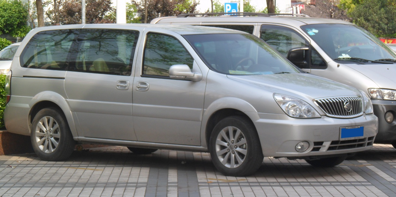 Buick GL8 facelift photographed in Shanghai, China.